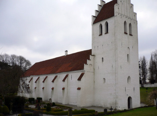 Falsterbo church Source: taken by self dec 26th 2004